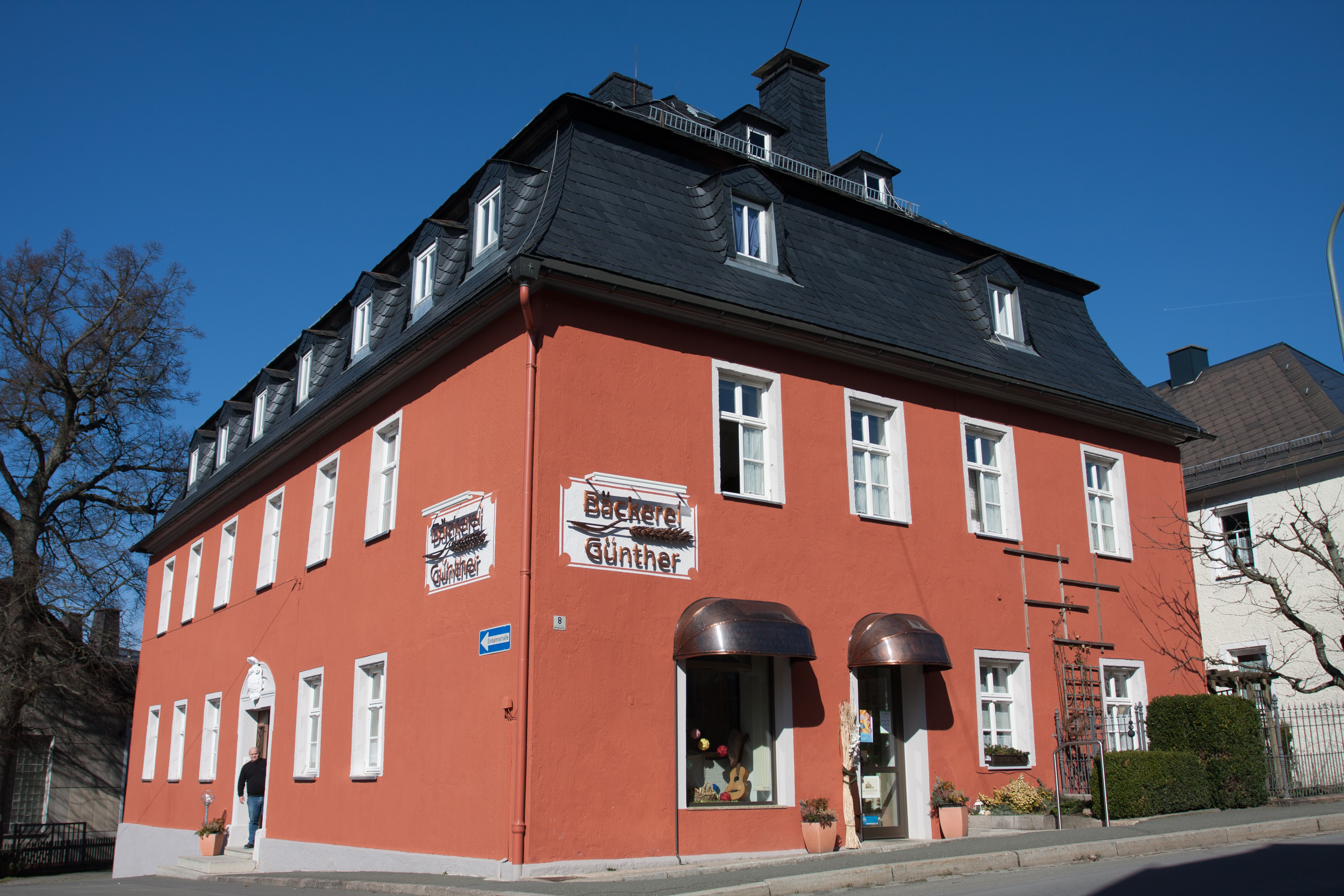 total view of the Feez house